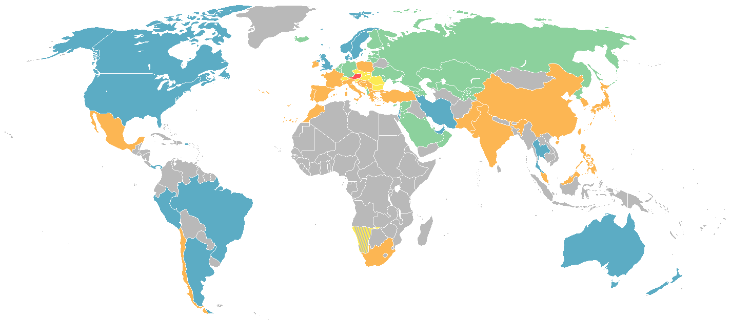 Motorway pricing around the world Free of charge Some toll paying sections Vignette needed Distance based toll Vignette and some toll paying sections Not specified